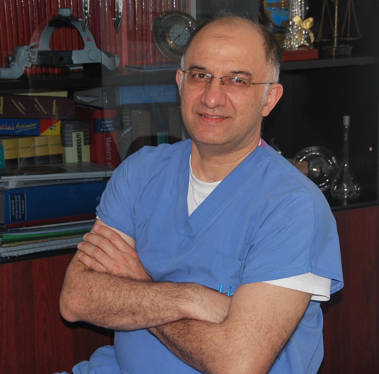 Kanan Yusifzadeh